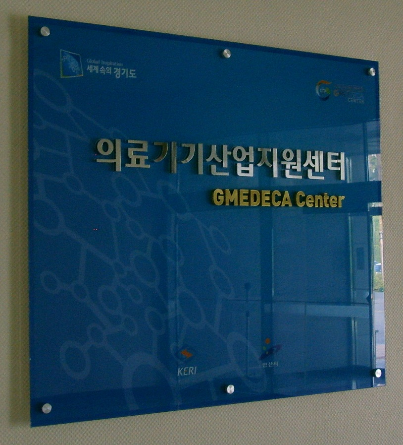 Nameplate of GMEDECA Center